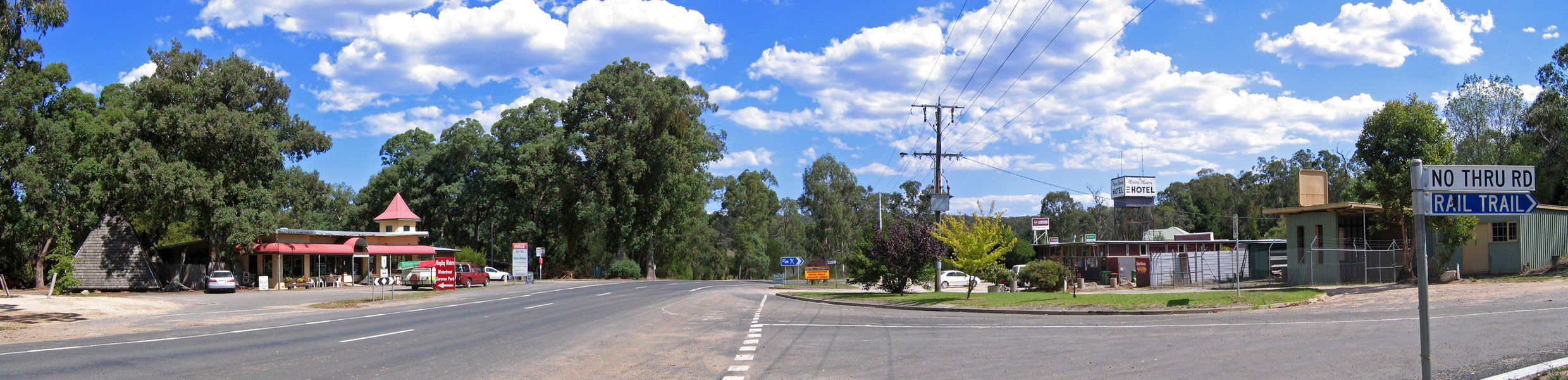 Nowa Nowa store and hotel on the Lakes Entrance road. The East Gippsland Rail Trail cuts through town as indicated by the sign at image right. Victoria, Australia.